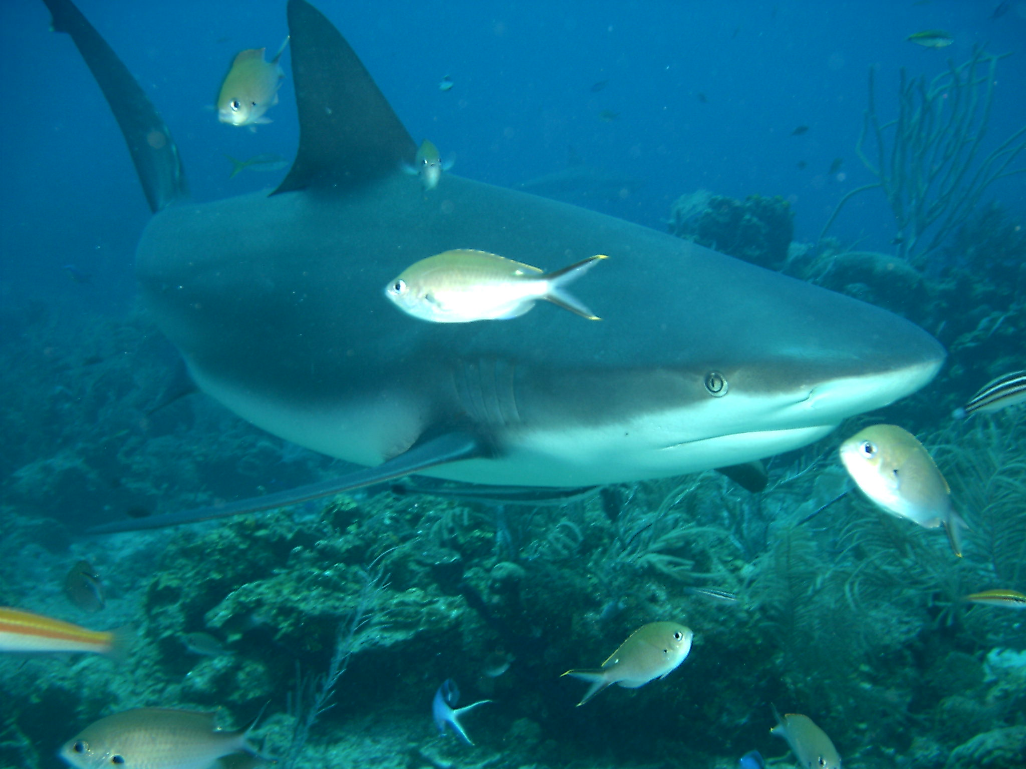 A Caribbean reef shark photographed at Roatan, Honduras.